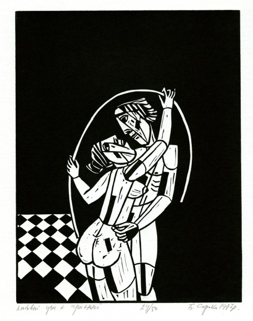 linotype, 1997